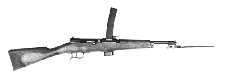 Original 1918 production of the Beretta M-1918